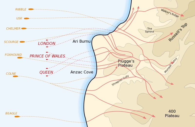 Map of the actual landing of the covering force (3rd Brigade, Australian 1st Division) at Anzac Cove on April 25, 1915 during the Battle of Gallipoli. The red dotted lines are the paths of the first wave in the battleship tows, the orange dotted lines are the paths of the second wave from the destroyers' boats. The red solid lines mark progress of the force after landing.